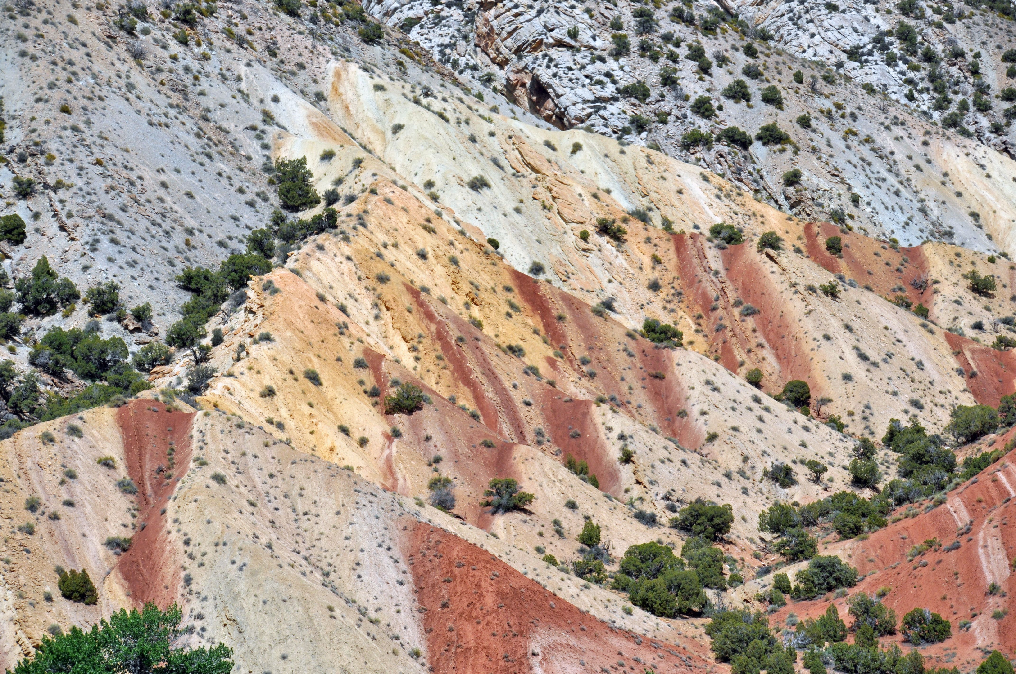 This is Split Mountain in Dinosaur National Monument, Utah, through which the Green River has erosionally carved a prominent canyon (off frame, to the left). The rocks at upper left are eolian sandstones of the Weber Sandstone, a thick, Pennsylvanian- to Permian-aged unit representing ancient sand dune deposits. The Weber is the principal cliff-forming unit in the park. At center are multicolored sedimentary rocks of the Park City Formation, a Permian-aged, marine, heterolithic, slope-forming unit. Here, it is principally reddish and yellowish shales. At lower right is a hematite-rich, fine-grained siliciclastics unit called the Moenkopi Formation (Triassic). Stratigraphy: Park City Formation, Permian Locality: southern flanks of Split Mountain, Dinosaur National Monument, northern Uintah County, northeastern Utah, USA (40° 26' 39.76" North latitude, 109° 15' 01.22" West longitude) See info. at: Geologic map of Dinosaur National Monument